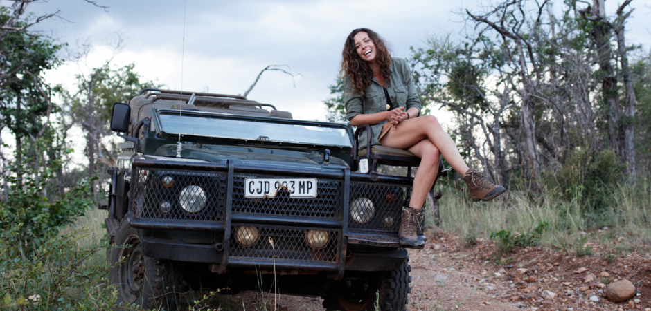 Gesa Neitzel on a jeep